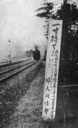 A black-and-white image of a tall signboard with Japanese writing (larger at the top), next to train tracks. There is a train visible in the distance.